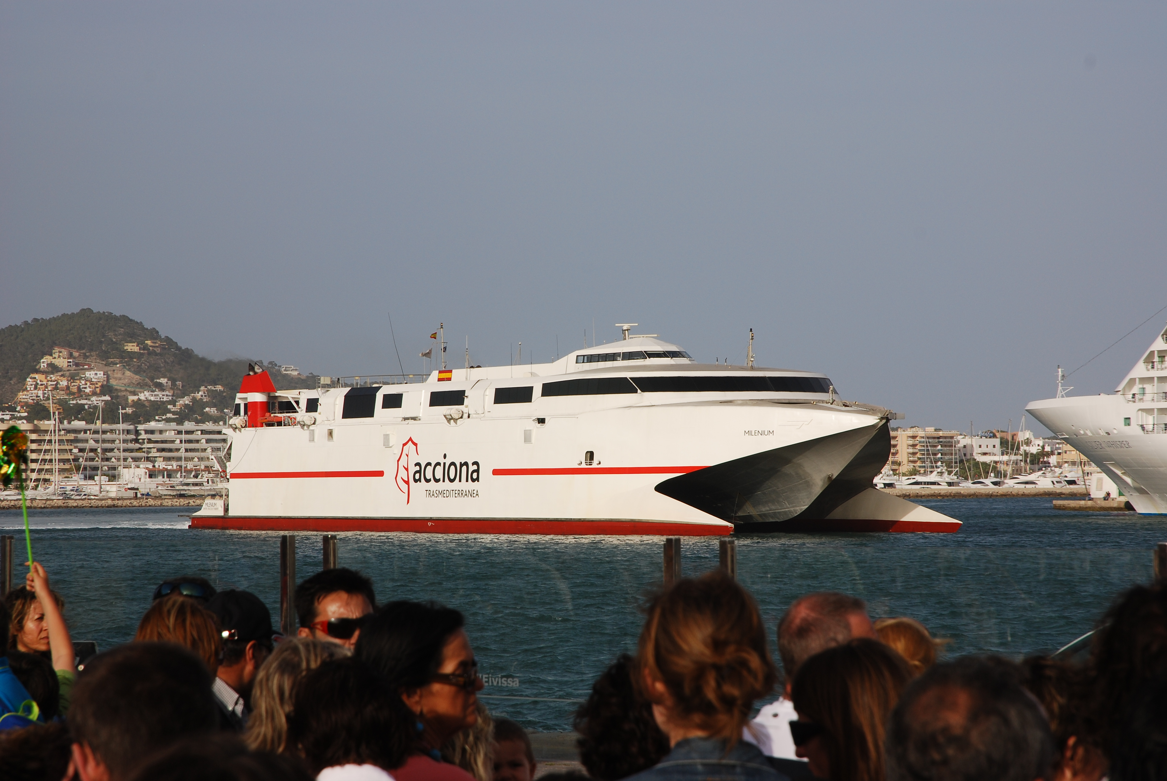 Fast ferry Milenium of Acciona company in Ibiza's harbour IMO Number: 9221346 MMSI Number: 224954000 Callsign: EHZN Length: 96 m Beam: 26 m